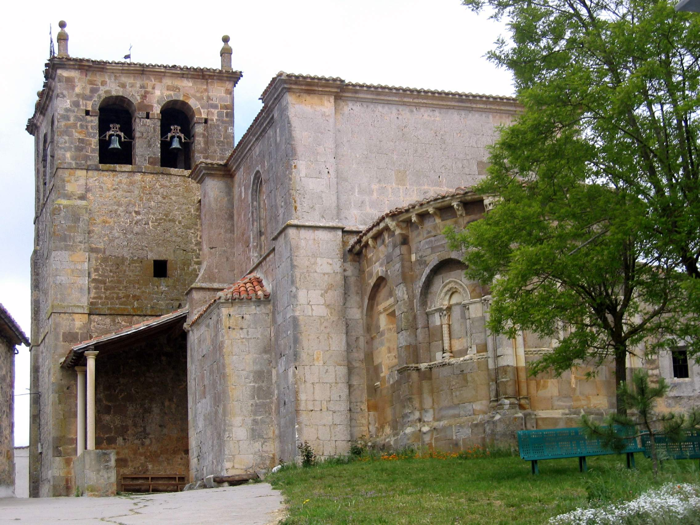 Church of Santa María, La Piedra (Burgos)